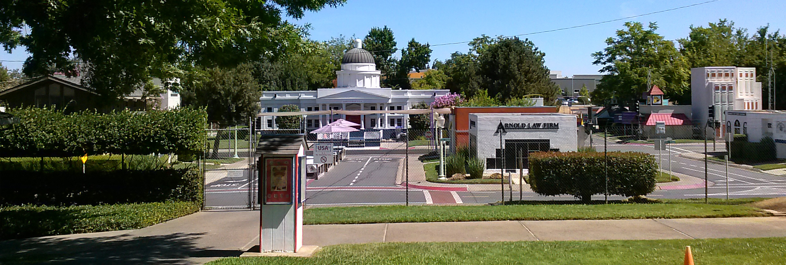 Cityscape view of Safetyville, USA